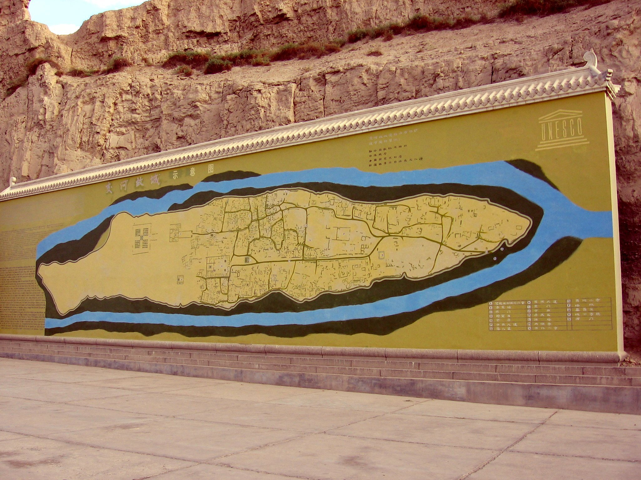 Turfan (Turpan/Tulufan) is an oasis city in the Xinjiang Uygur Autonomous Region of the People's Republic of China. Jiaohe ruins. Ruins map.